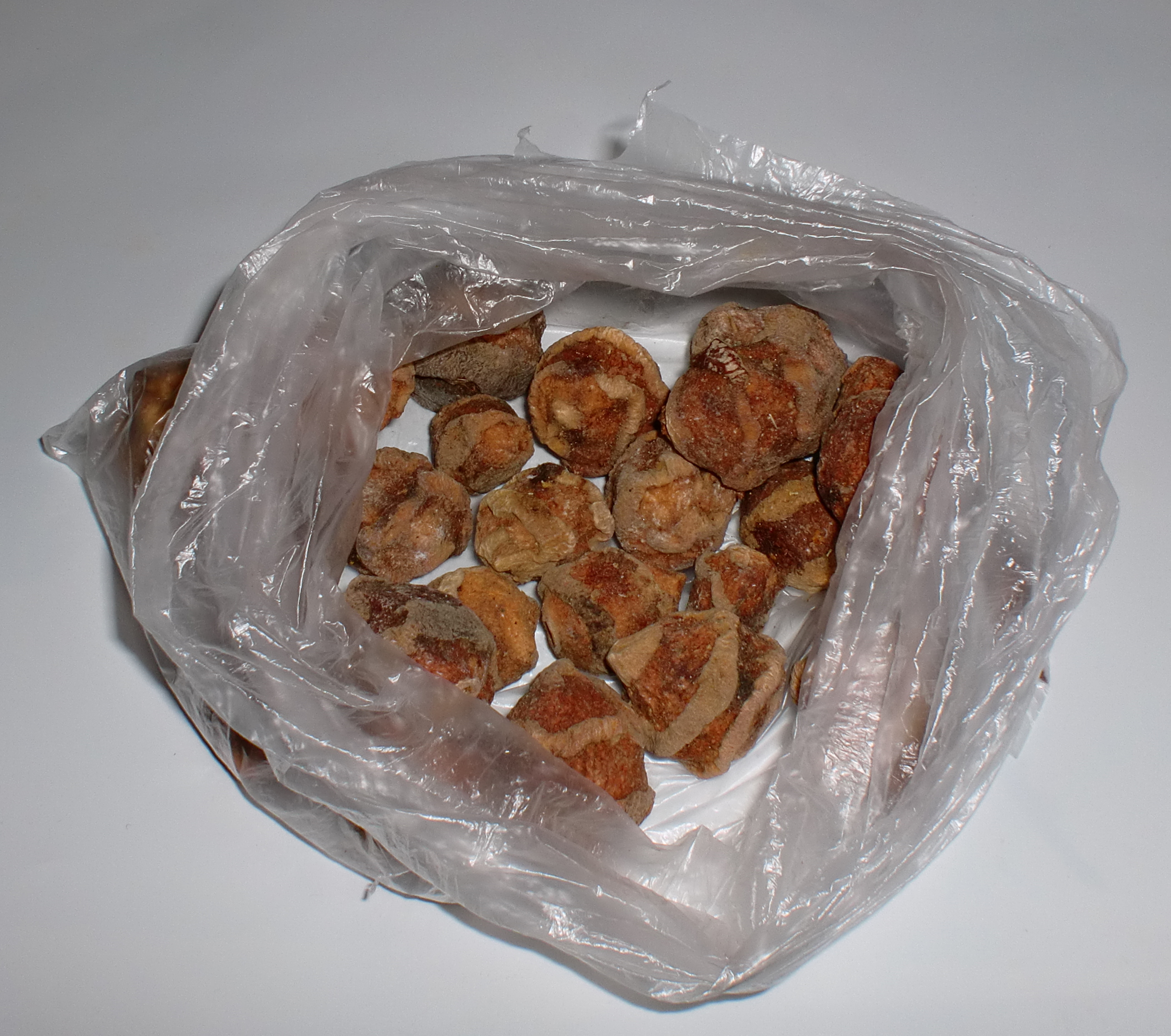 Bag with "mocochinchi" (peach dried). This is typical of Bolivian food. That you used to prepare a refreshing drink